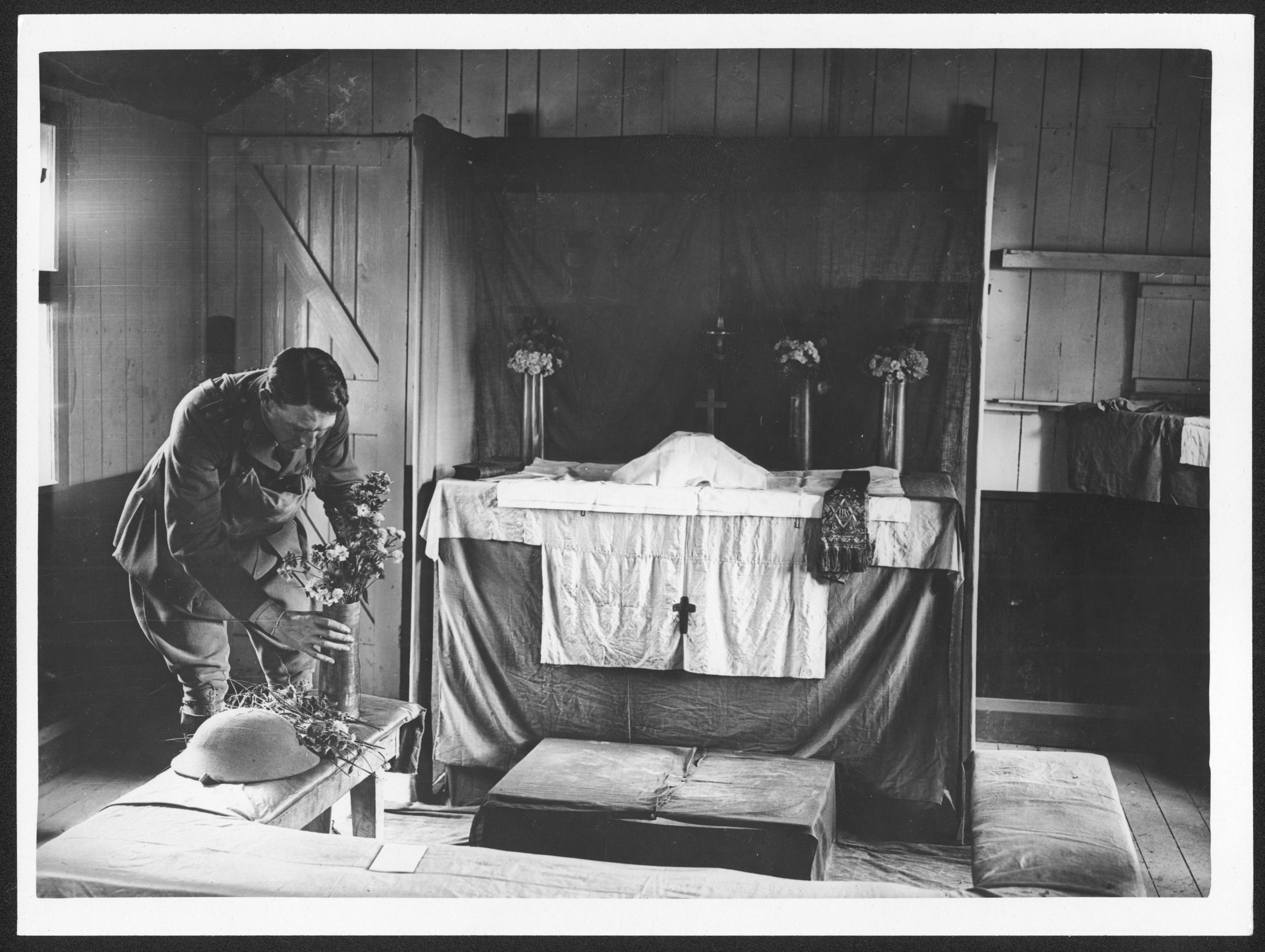 Army chaplain in his chapel, Western Front, during World War I. This photograph shows an army chaplain arranging wildflowers in a vase for the altar in his little chapel. Three other vases of flowers stand on the altar, flanking a simple cross and the chalice and paten used for the sacrament, which are hidden below a cloth. Also on the altar, there is the chaplain's stole, a scarf-like vestment worn by Catholic or Anglican priests when administering the sacraments. [Original reads: 'OFFICIAL PHOTOGRAPH TAKEN ON THE BRITISH WESTERN FRONT IN FRANCE. A Padre decorating the altar in his "Church" in the line. This little hut which serves as a Church is in a clump of trees barely 200 yards from the front line.']